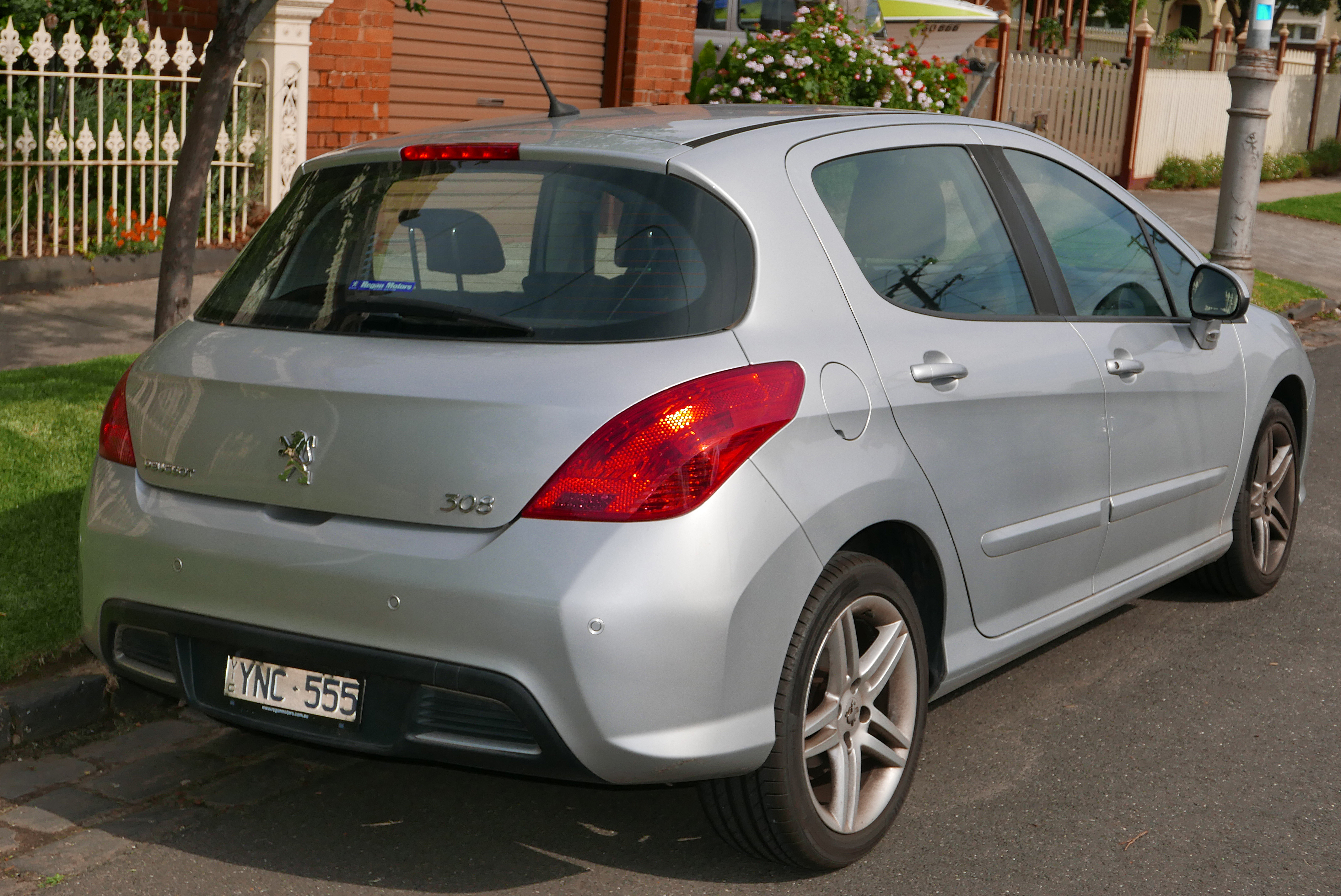 2011 Peugeot 308 (T7 MY10) Sportium 1.6 T 5-door hatchback. Photographed in Ascot Vale, Victoria, Australia. Vehicle registration enquiry resultsJurisdictionVictoriaRegistrationYNC555Chassis codeVF34C5FVAAS342427Engine code10FJBJ1053778Compliance date2011-06Year of manufacture2011